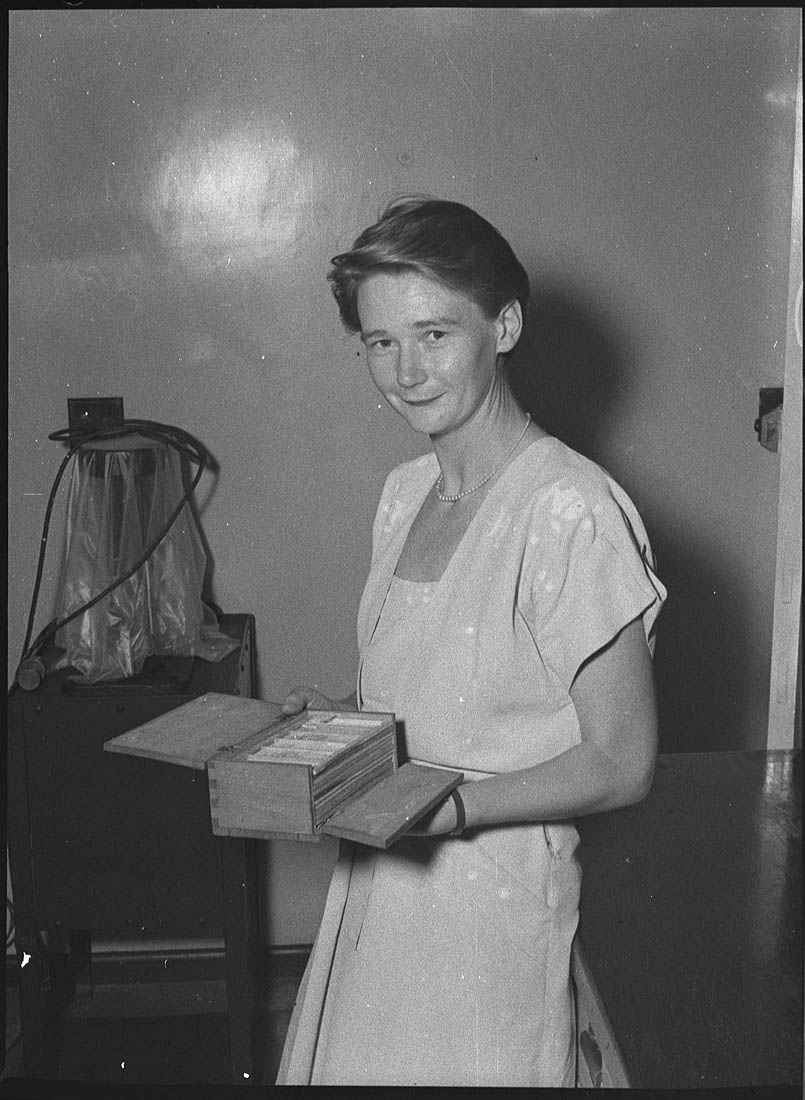 Format: Photograph Notes: Dr Beryl Nashar (1923- ), a geologist, was the first female Dean of Science at an Australian university. Find out more here: Find more detailed information about this photograph: Search for more great images in the State Library's collections: From the collection of the State Library of New South Wales